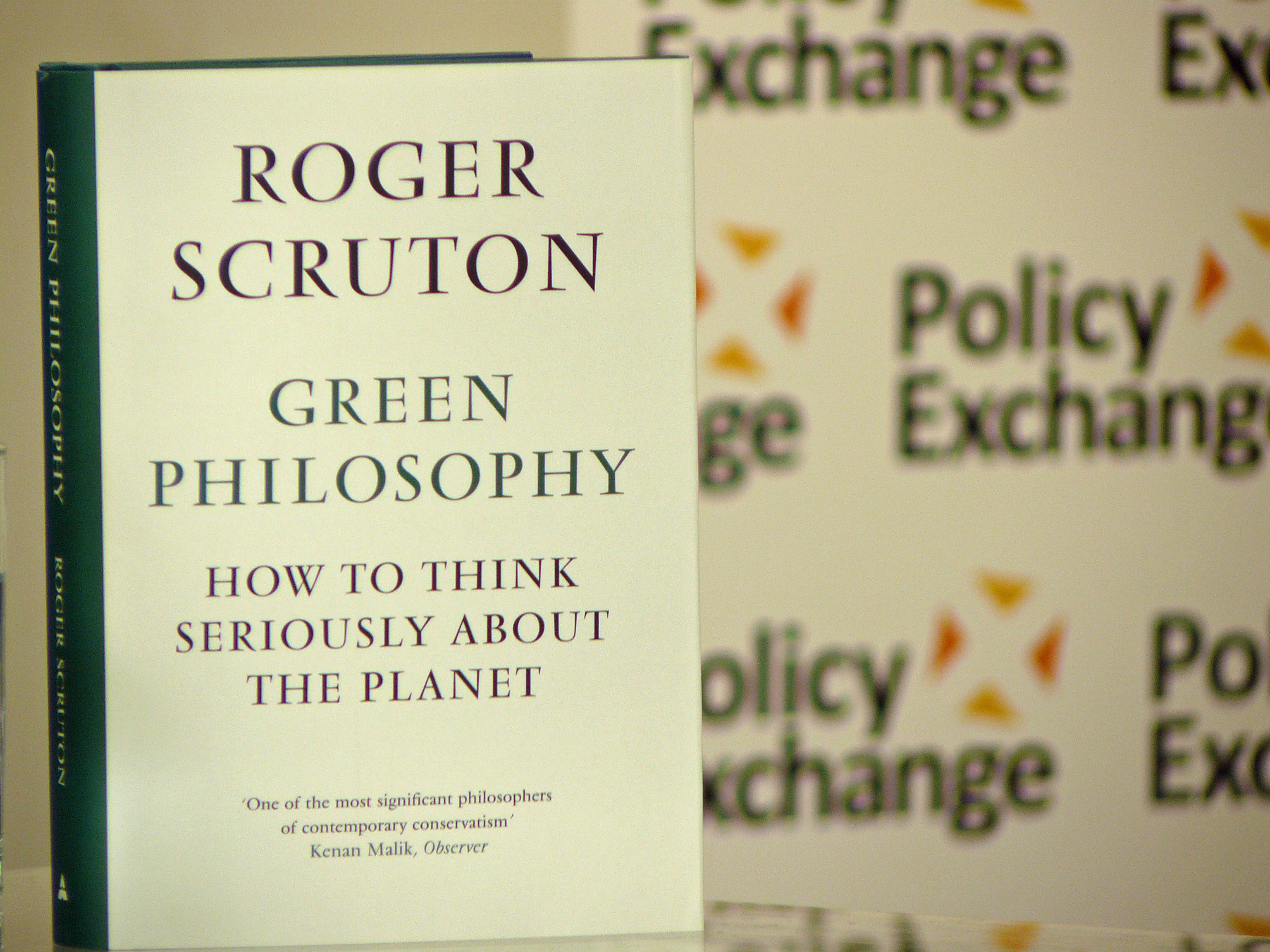 Book cover of Green Philosophy by Roger Scruton